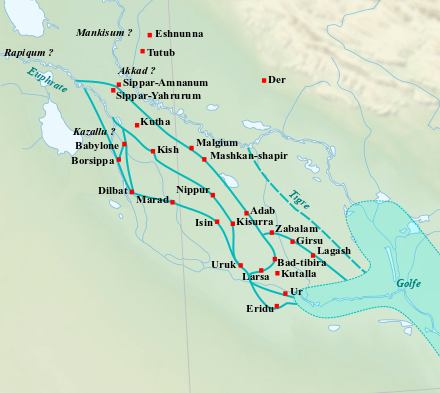 Location map of the main cities of Lower Mesopotamia during the paleo-babylonian period (2004-1595 BC). With the approximate course of the rivers and the ancient shoreline of the Gulf.